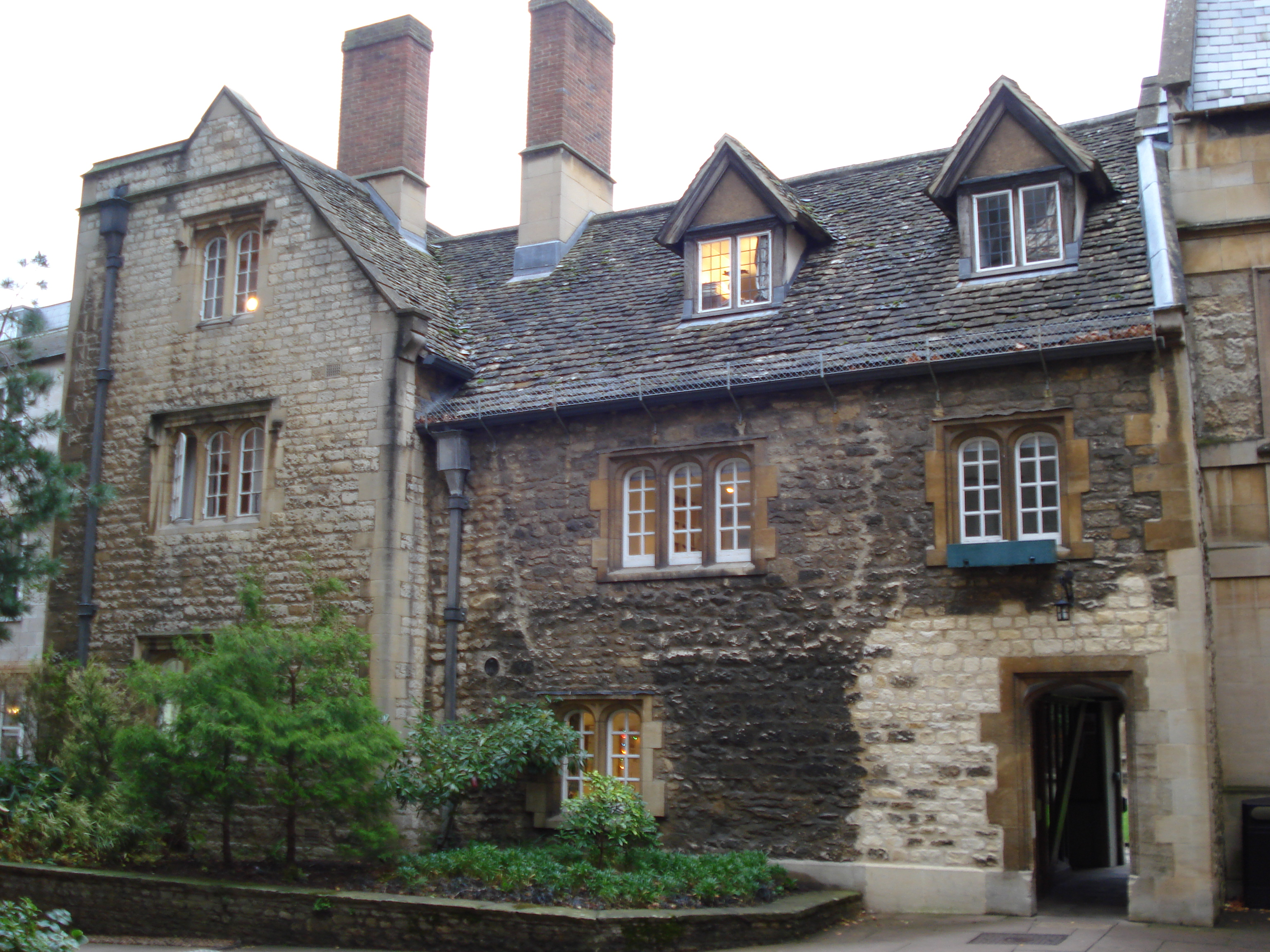 Building containing the Old Library and other facilities, seen from the Wolfson Dining Hall. St Edmund Hall, Oxford.